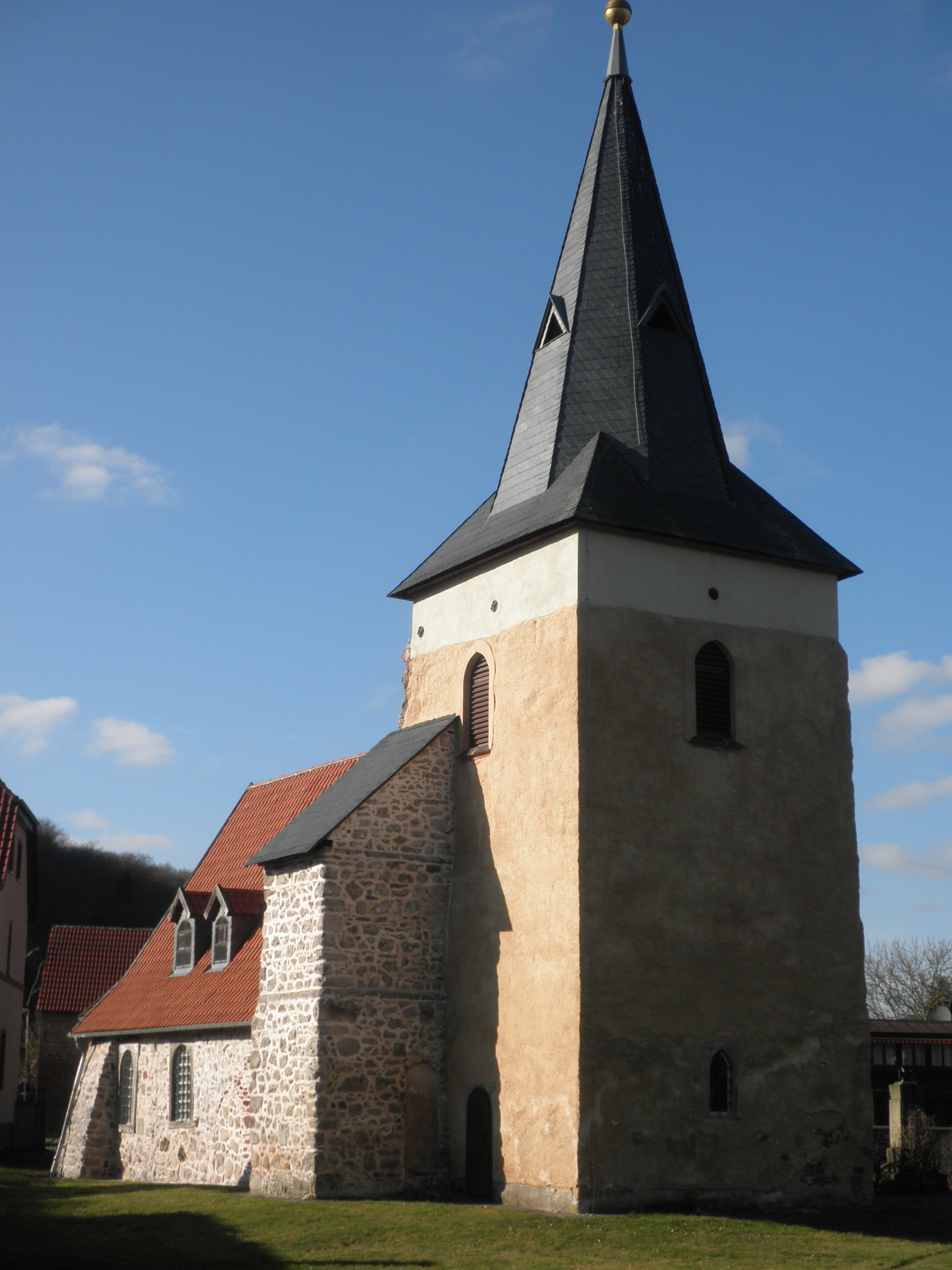 Church in Stempeda (Nordhausen) in Thuringia